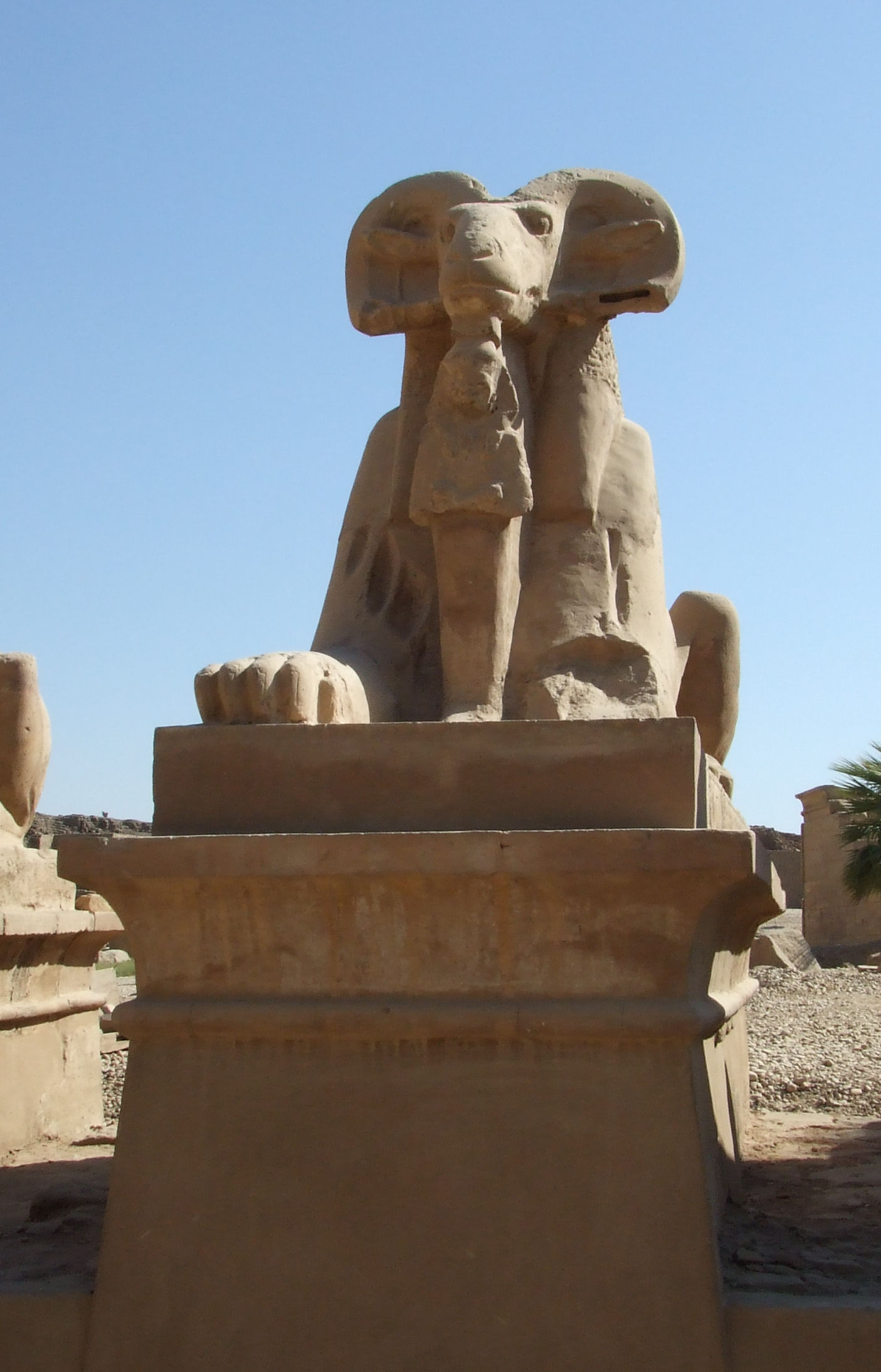 Sphynx with ram head at Karnak temple, egypt